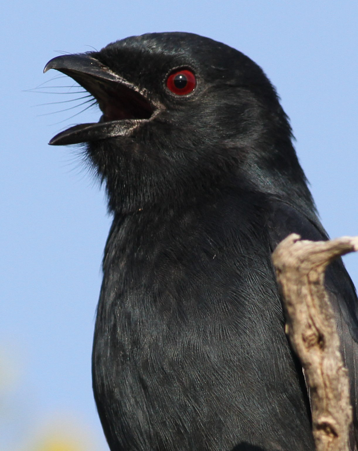 Fork-tailed Drongo, Dicrurus adsimilis, at Mapungubwe National Park, Limpopo, South Africa